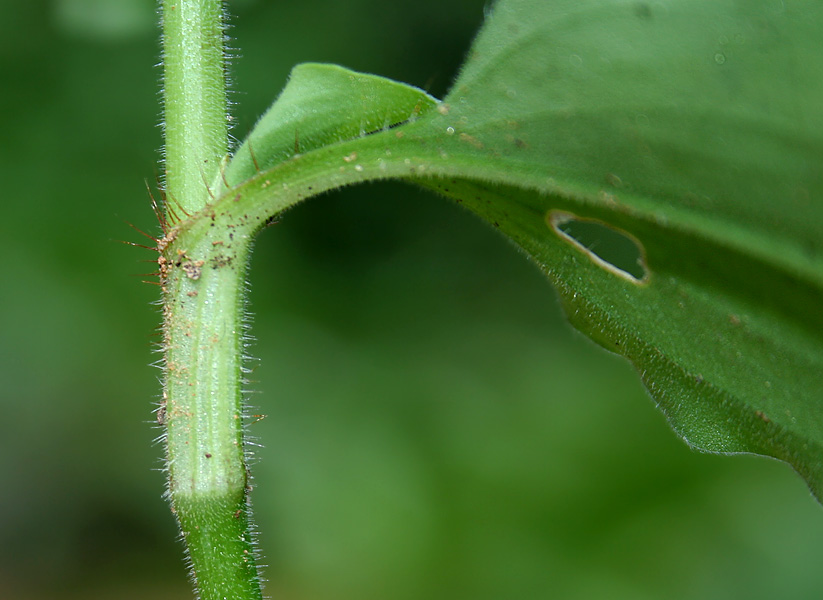 Commelina benghalensis - benghal dayflower, tropical spiderwort, wandering jew, Whiskered Commelina • Hindi: काना Kana, Kankawa • Manipuri: ৱাঙদেন খোইবী Wangden khoibi • Marathi: केना Kena - in Hyderabad, India.